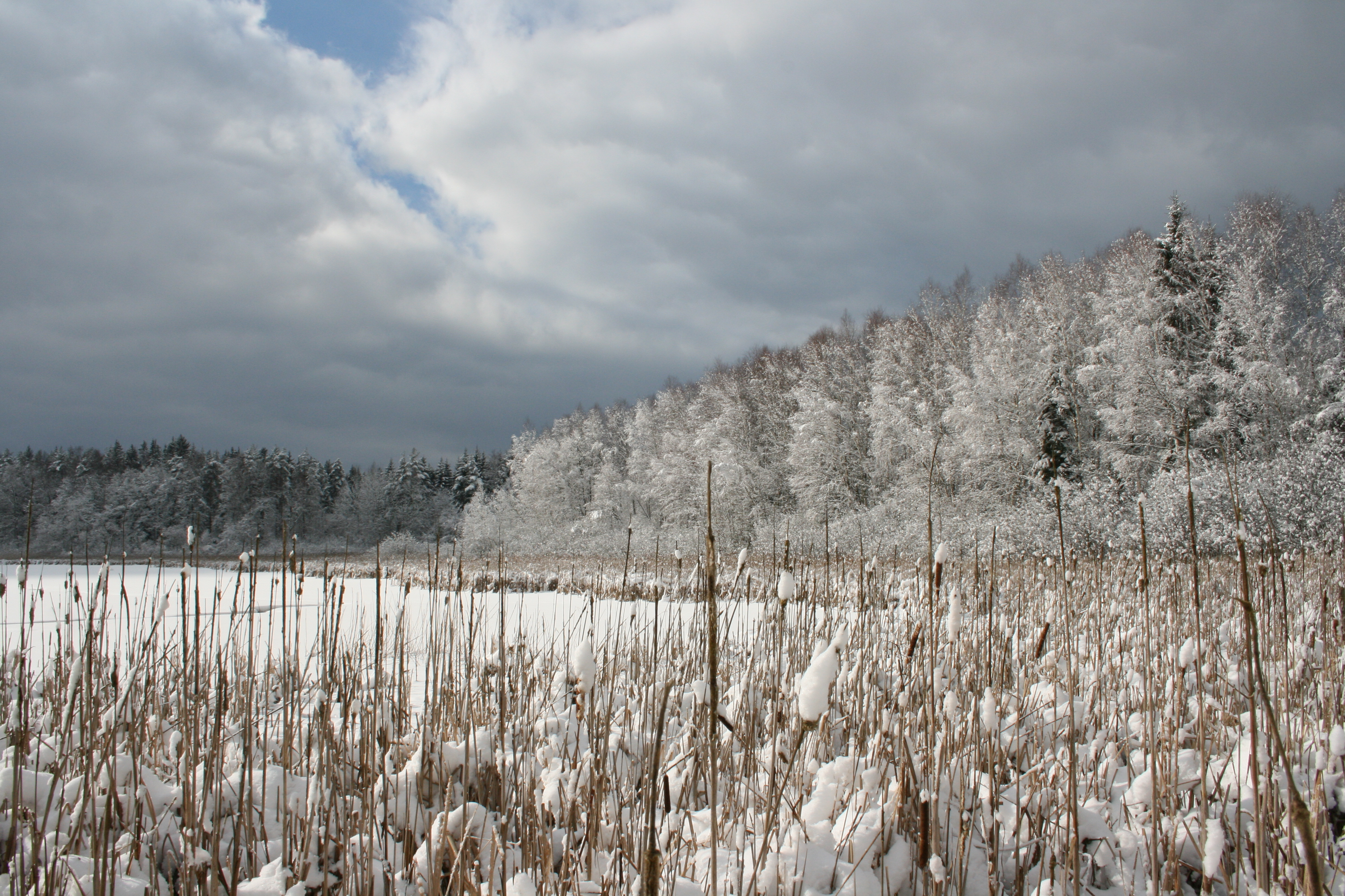 Nature reservation Blanko to the south from Smrčné near Nová Bystřice, Jindřichův Hradec district, Czech Republic.